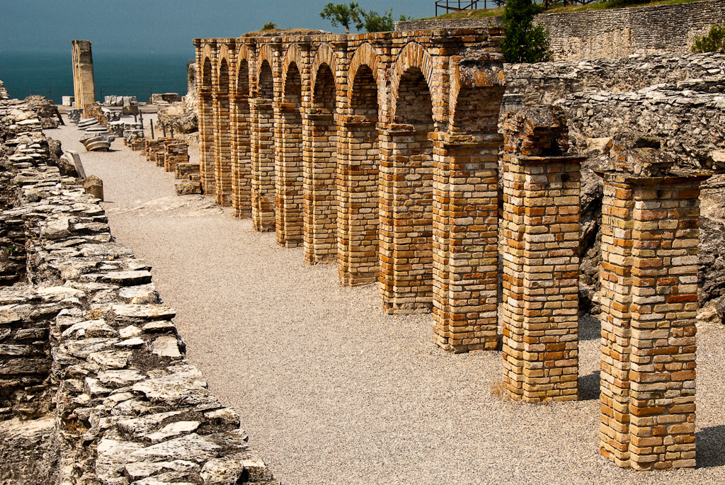 Flickr description: "A stunning archaeological ruin that takes hours to explore in Sirimone."